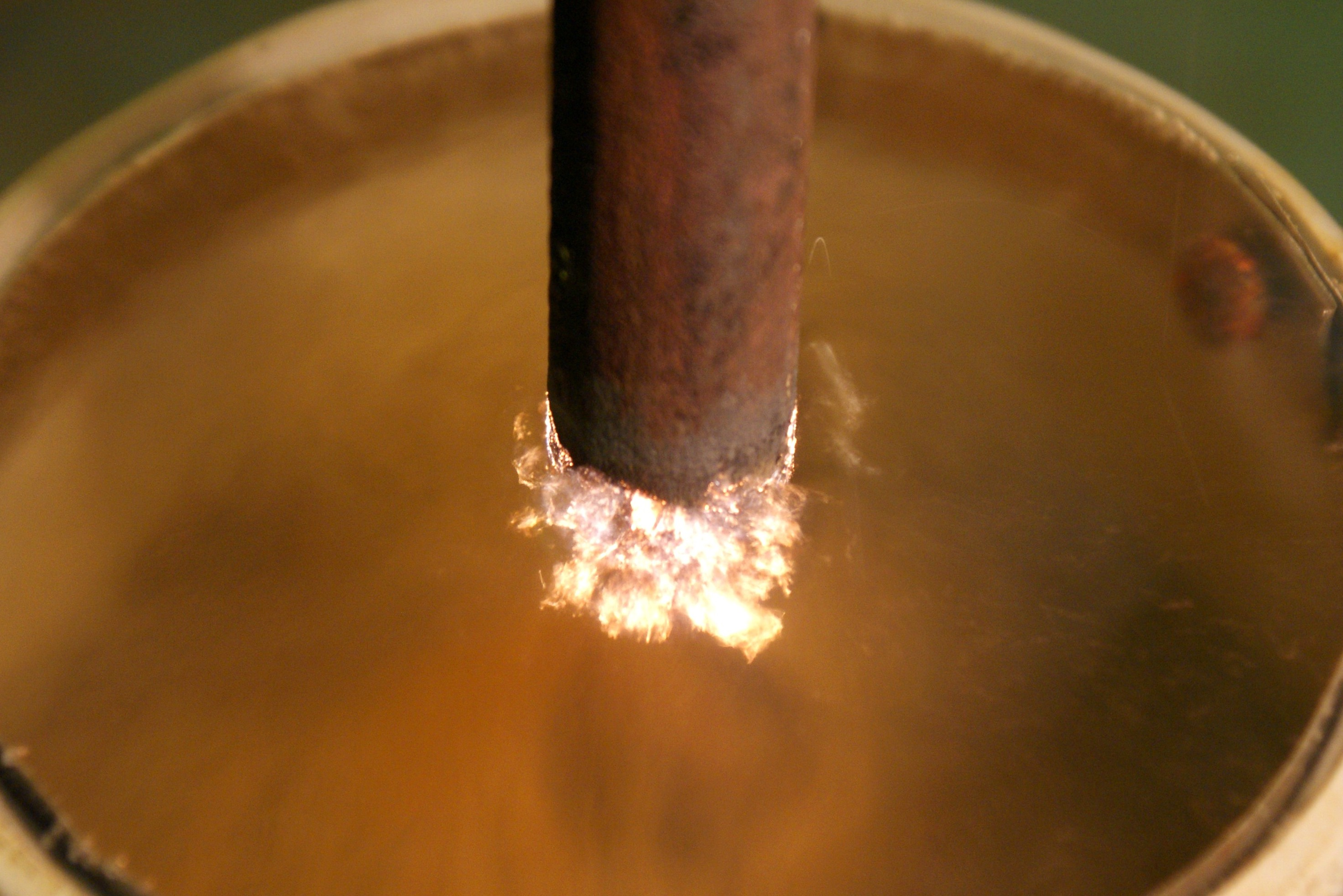 Anode electrolytic heating (AEH) of steel stick in ammonium chloride solution (high-speed method of electrochemical and heating treatment of metals and alloys)